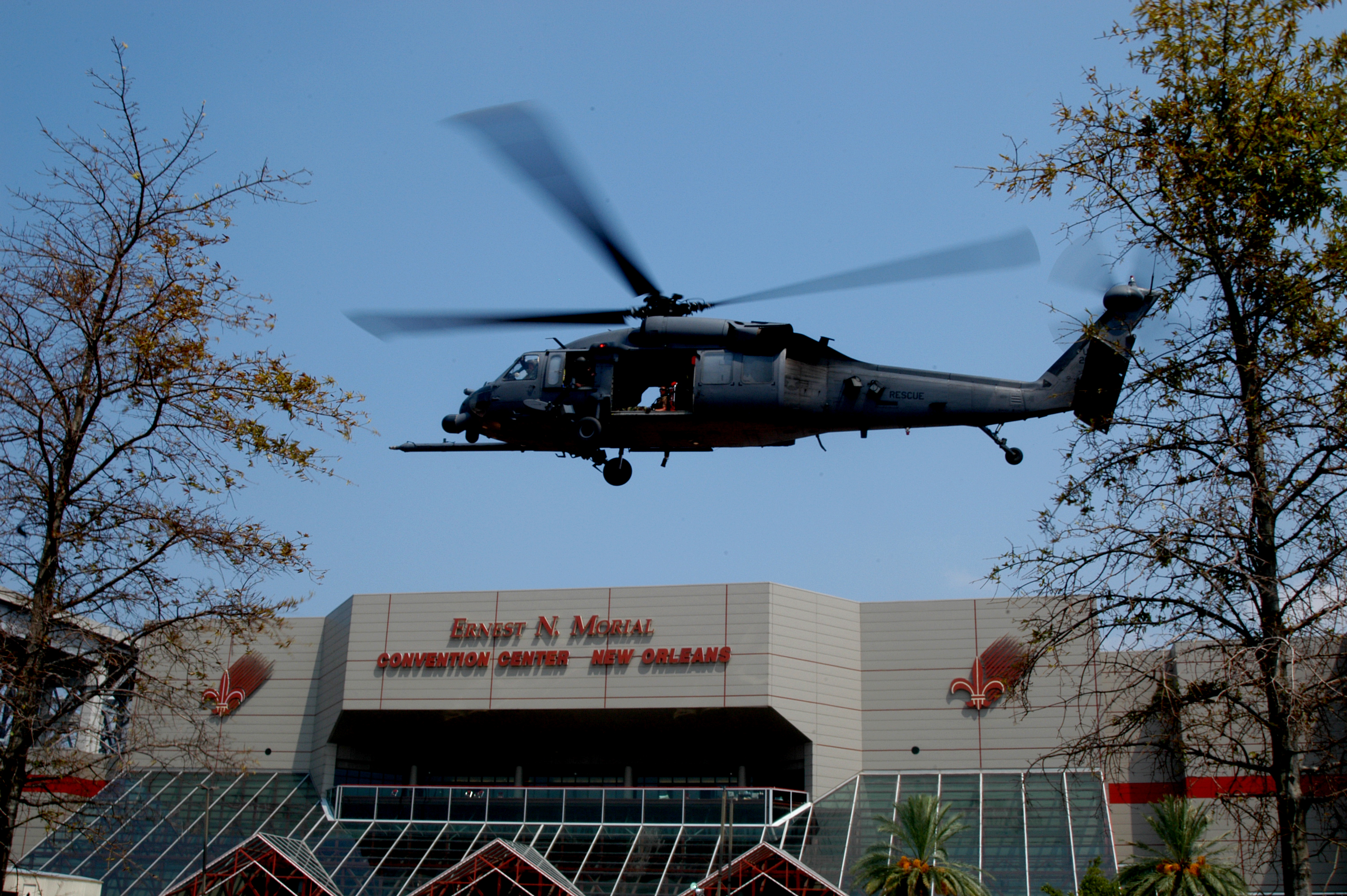 New Orleans, September 5, 2005 - A UH-60 helicopter prepares to land and evacuate individuals from the Ernest N. Morial Convention Center, one of two major pickup sites established in the downtown area. Once loaded, the helicopter will ferry the rescued people to the New Orleans Airport for medical treatment and then air transport to shelters and hospitals around the country as New Orleans continues to be evacuated. Photo by Win Henderson / FEMA photo.